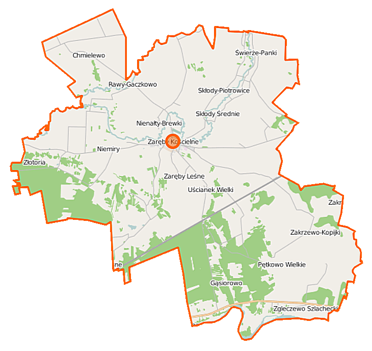 Map of Gmina Zaręby Kościelne, Poland This map of Zaręby Kościelne (gmina) was created from OpenStreetMap project data, collected by the community. This map may be incomplete, and may contain errors. Don't rely solely on it for navigation. Border coordinates52.802822.0314←↕→22.231952.6885